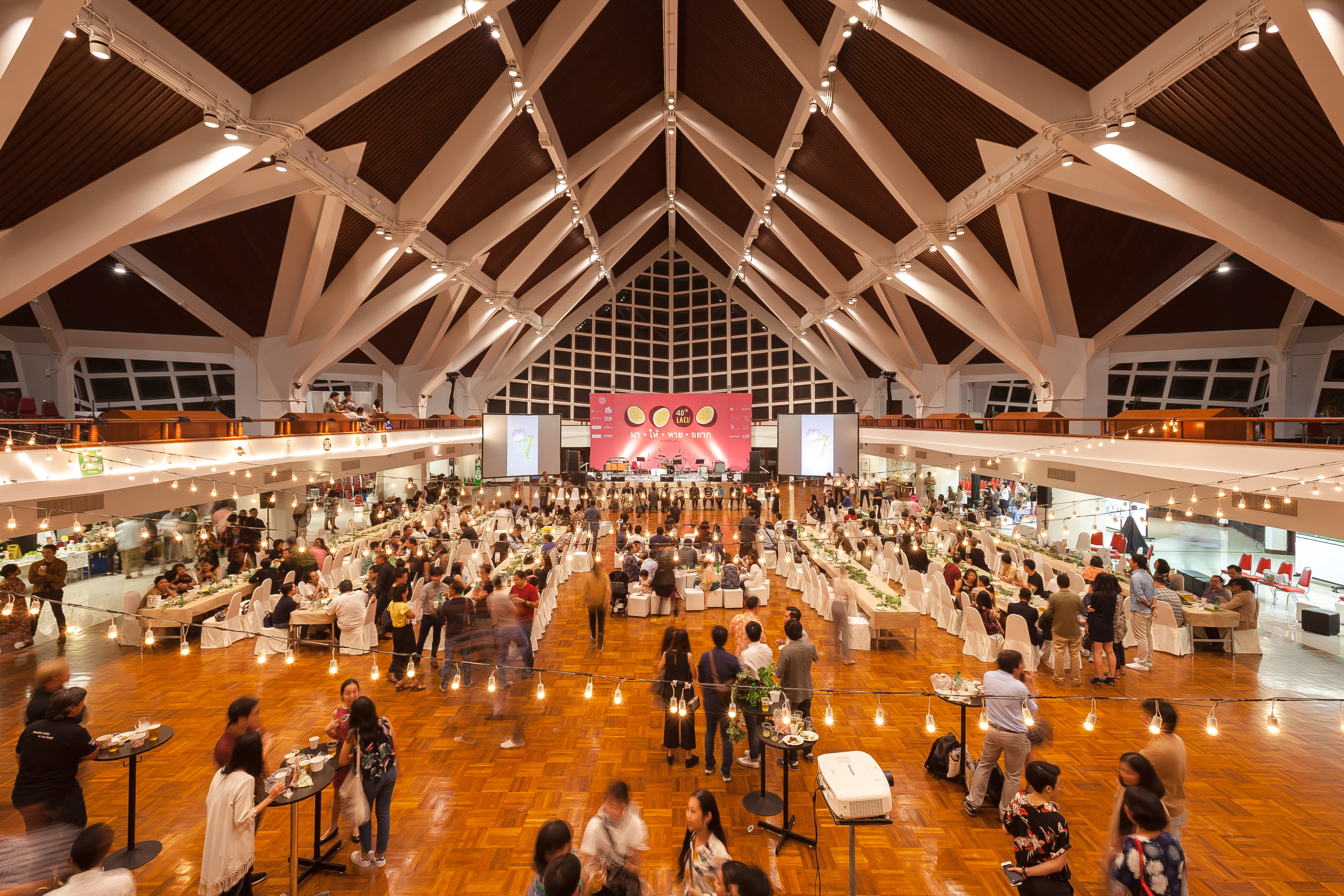 The 40th Department of Landscape, Faculty of Architecture, Chulalongkorn University.